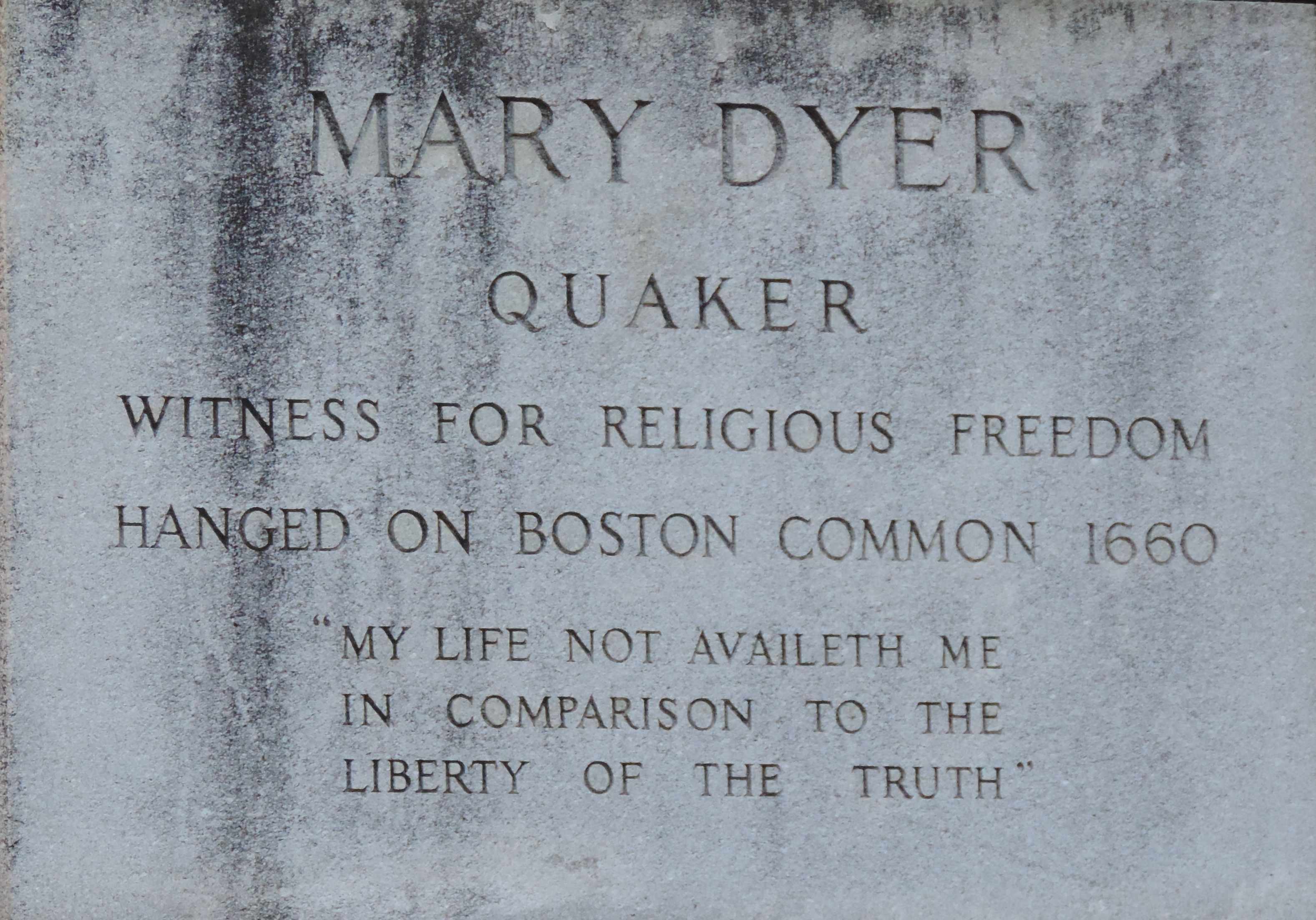 Inscription under the statue of Mary Dyer at the Massachusetts Statehouse, Boston, Mass.